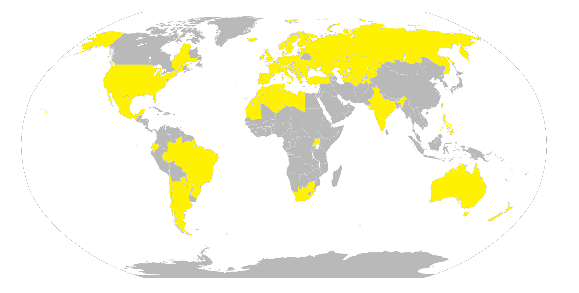 Countries in which the organisation Intersex International, in short OII with national associations or partner organisations is represented